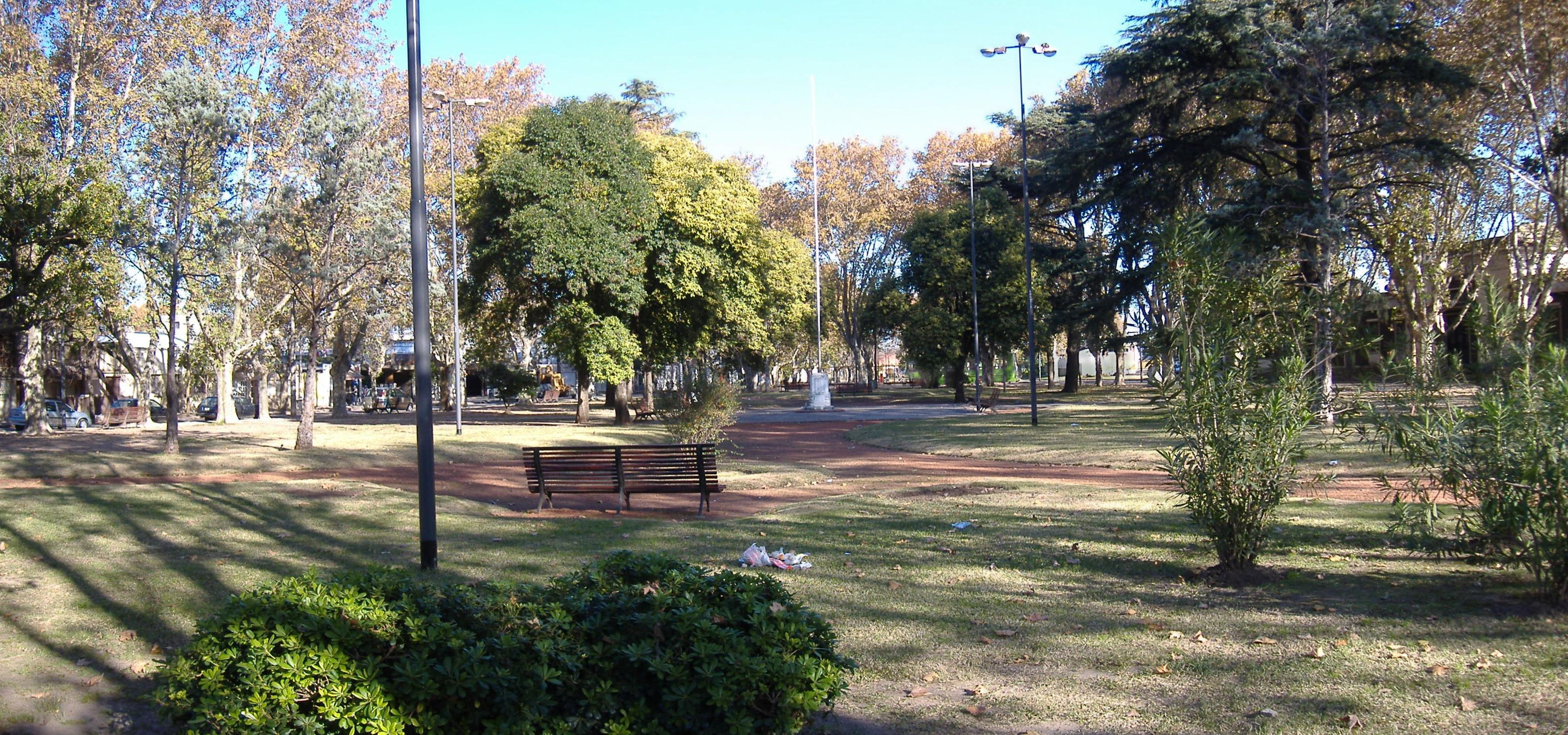 Plaza Ciro Echesortu, an urban square in Barrio Echesortu, Rosario, Argentina, facing the now-abandoned Rosario Oeste railway station.